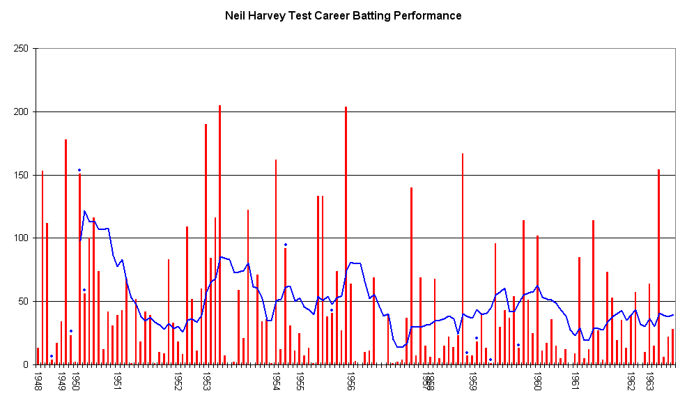 This graph details the Test Match performance of Neil Harvey. It was created by Raven4x4x. The red bars indicate the player's test match innings, while the blue line shows the average of the ten most recent innings at that point. Note that this average cannot be calculated for the first nine innings. The blue dots indicate innings in which Harvey finished not-out. This graph was generated with Microsoft Excel 2002, using data from Cricinfo and .au.